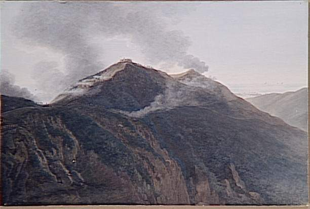 Attaque de la redonte de Monte-Legino